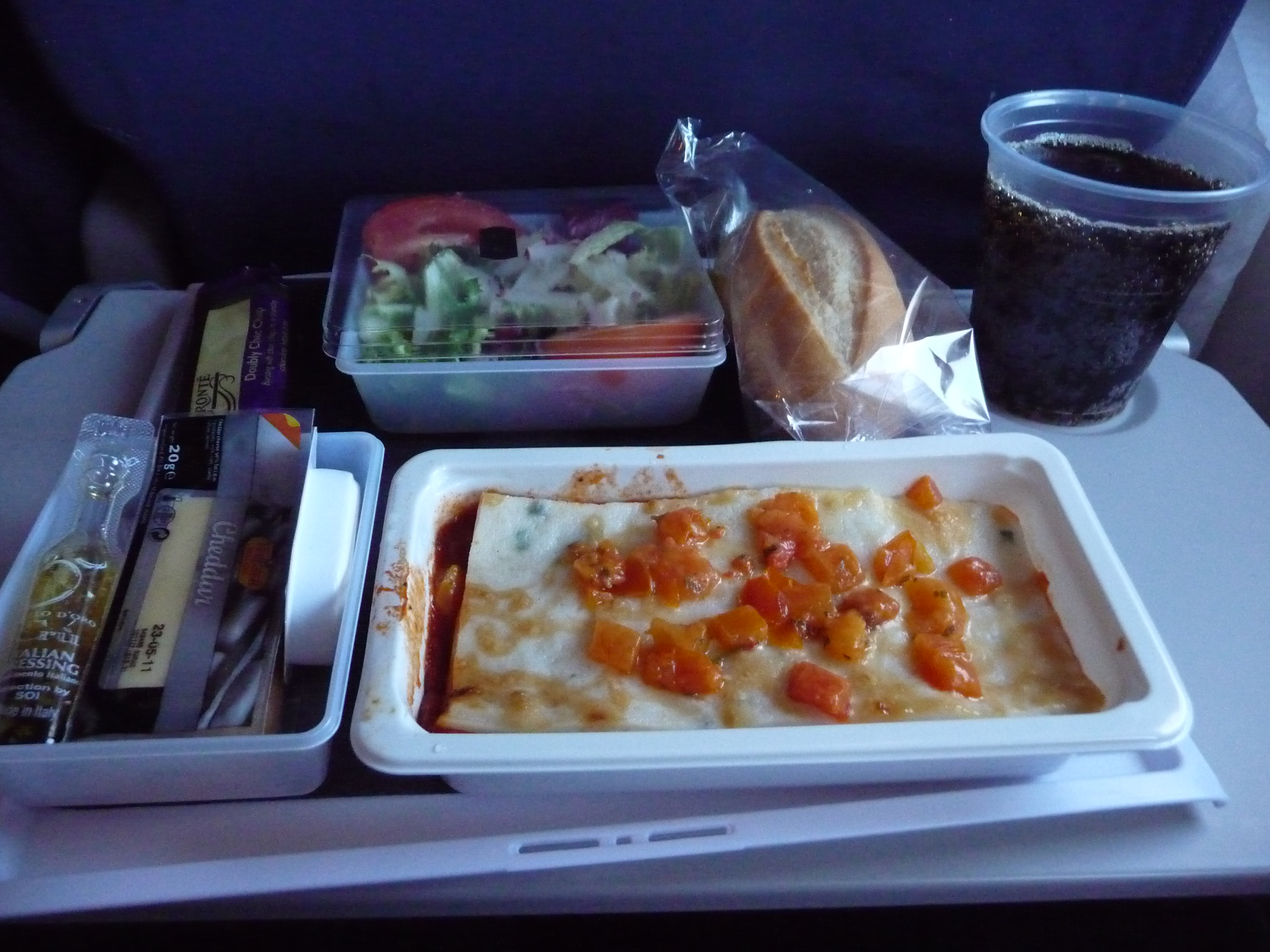 Delta Airlines Vegetable Lasagne Meal. Served for lunch on flight from London to USA.